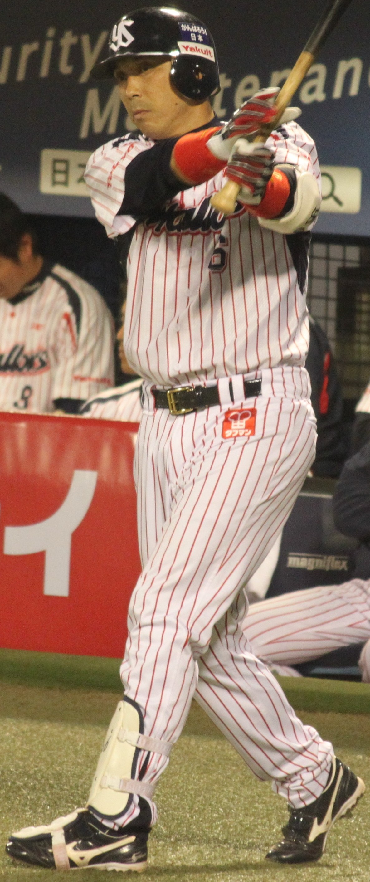 Shinya Miyamoto, infielder of the Tokyo Yakult Swallows, at Meiji Jingu Stadium.